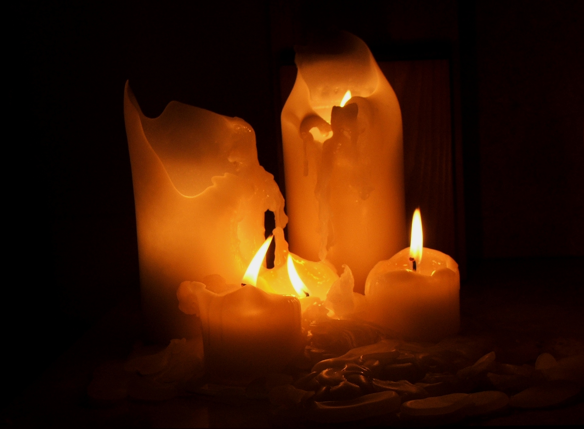 Picture of several candles melting in the dark, balanced and cropped to refine the orange glow.